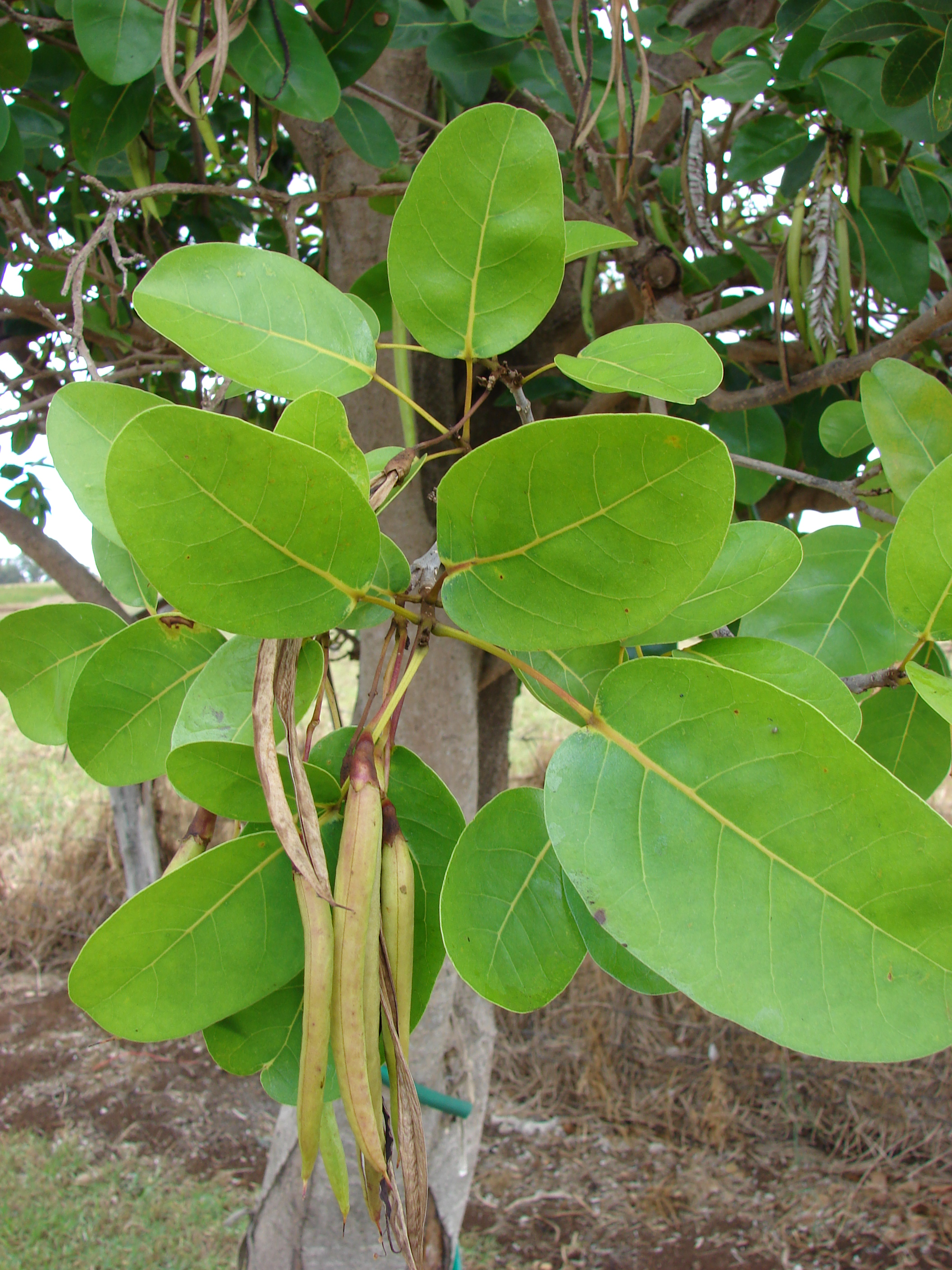 Tabebuia rosea (leaves and pods). Location: Maui, Makawao Veterinary Clinic